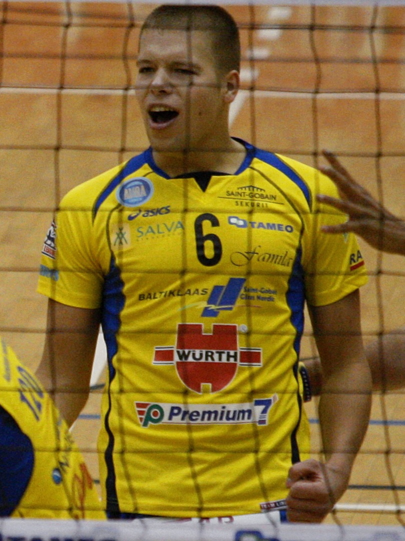 Martti Juhkami in Tartu Pere Leib